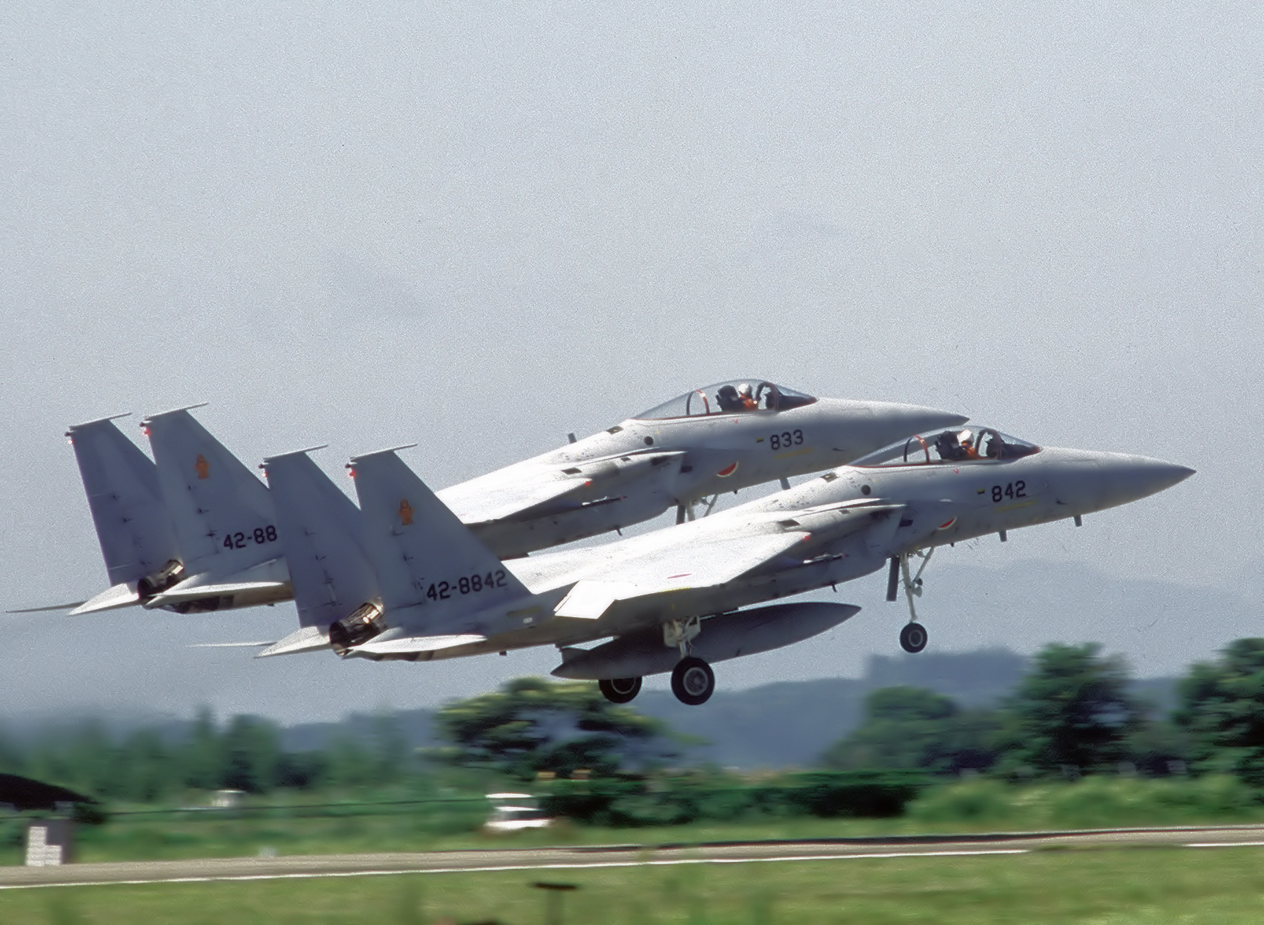 Two F-15J Eagle aircraft of the 202nd Tactical Fighter Squadron, Japanese Air Self Defense Force (JASDF), take off in formation during the joint U.S./Japan exercise Cope North 85-4. Location: NYUTABARU AIR BASE, KYASHU JAPAN (JPN)